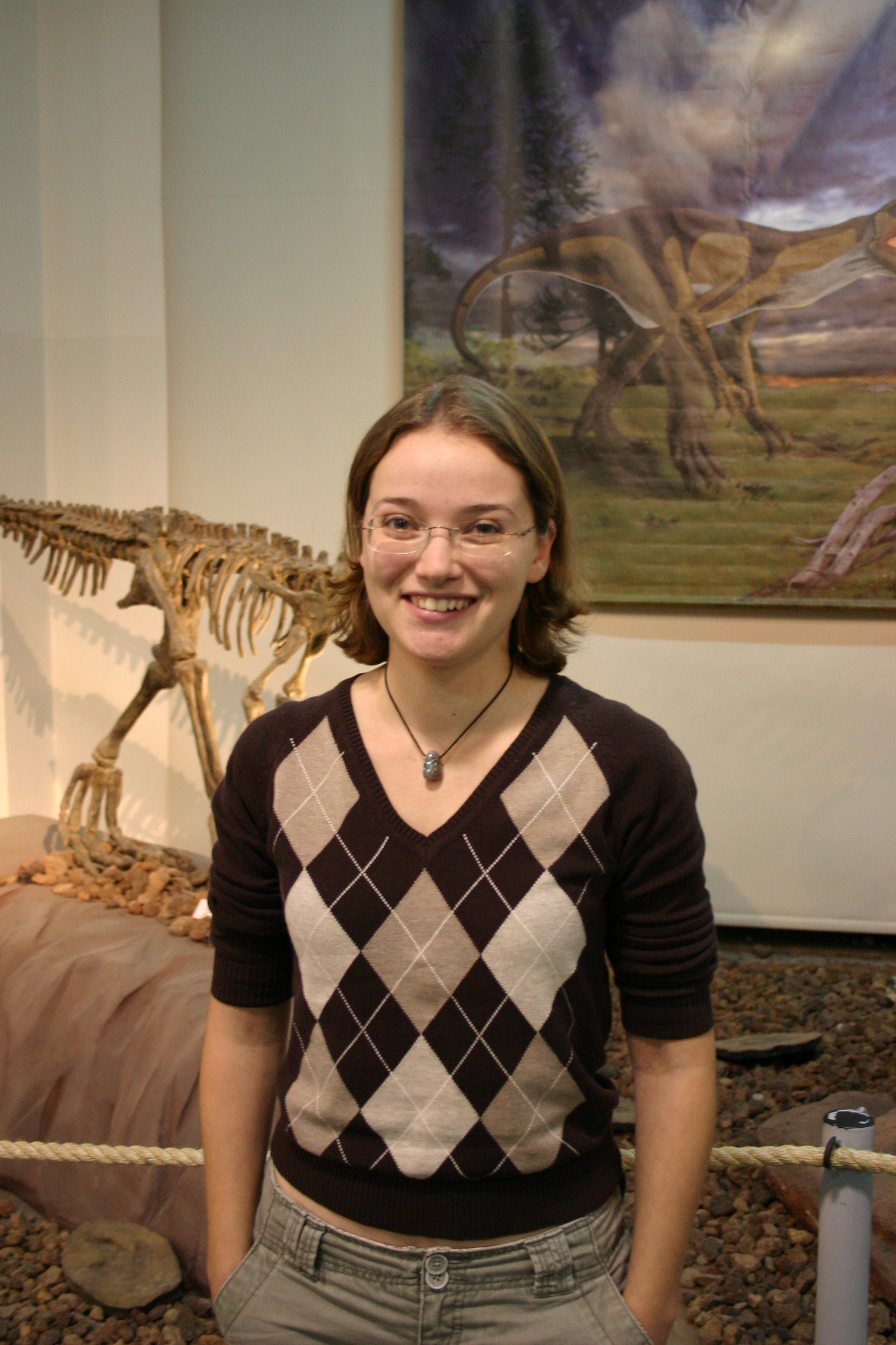 Bella Igla at the Israel Chess Championship finals in December 2008, Madatch, Haifa, Israel